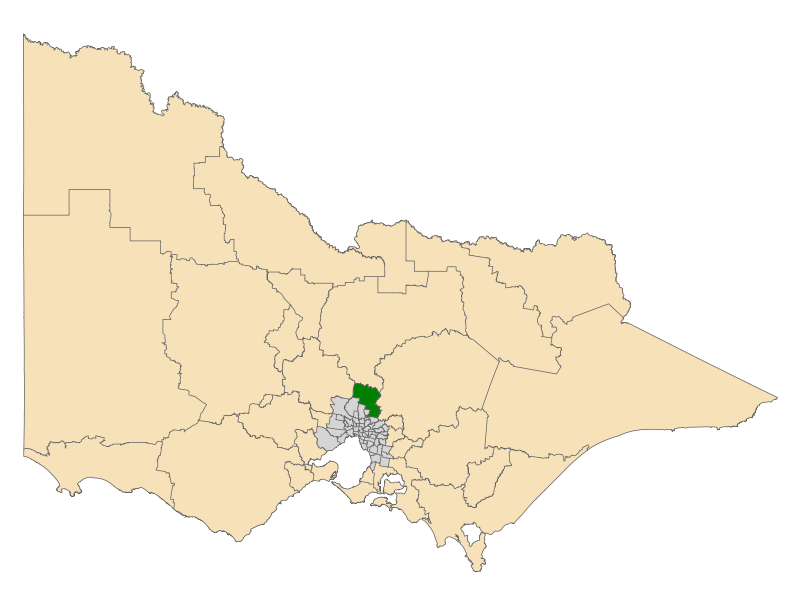 Location of the Electoral District of Yan Yean (dark green) in the state of Victoria, Australia. These boundaries were used for the Victorian state election on 29 November 2014.